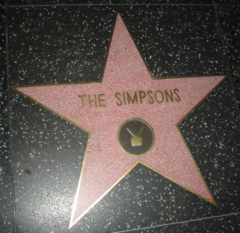 The Simpsons star at the Hollywood Walk of fame